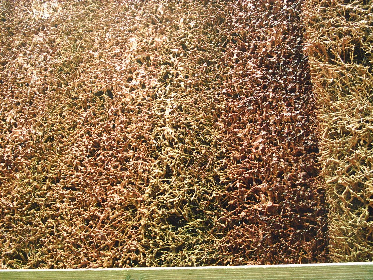 salt works (detail view), Bad Salzuflen, Germany check usage